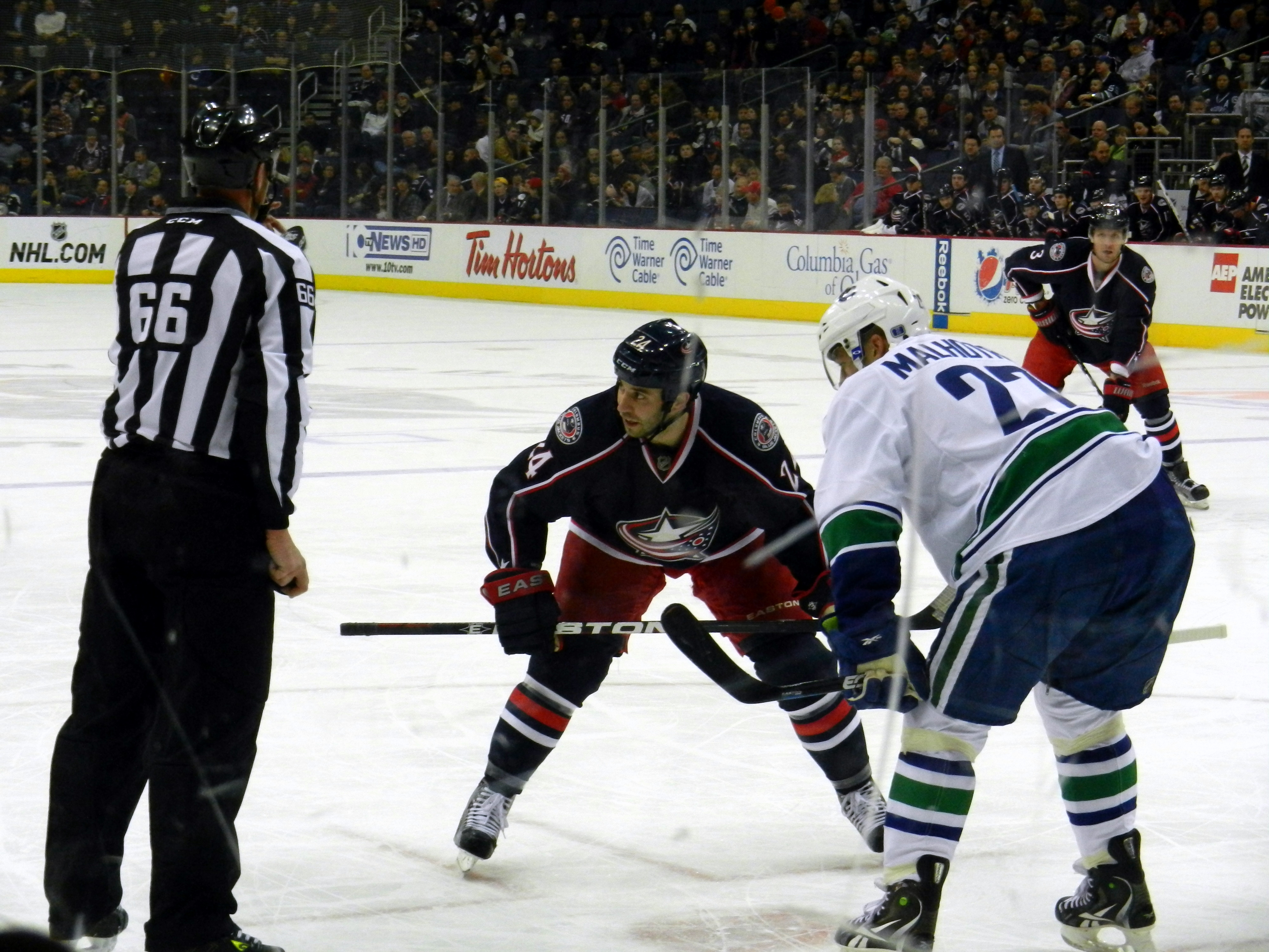 Derek MacKenzie (blue) and Manny Malhotra (white) take a face-off during a Columbus Blue Jackets - Vancouver Canucks game during the 2011-12 NHL season. Columbus won the game 2-1 in a shoot-out